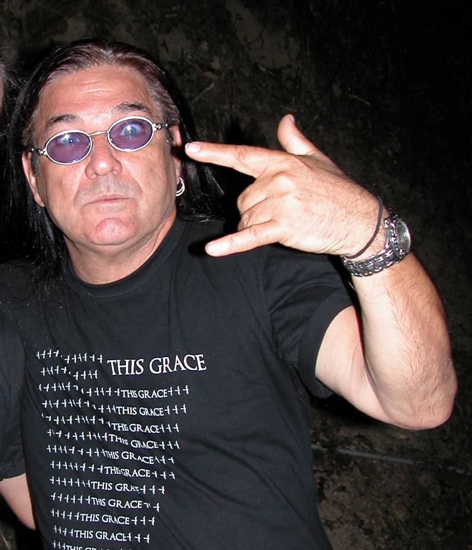 Pino Scotto in concert to the annual Festival ceroanKio of Asti - August, 29 2009